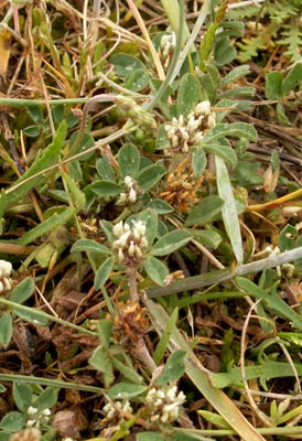 Trifolium scabrum Plougrescant, Côtes-d'Armor, France Source : [1]